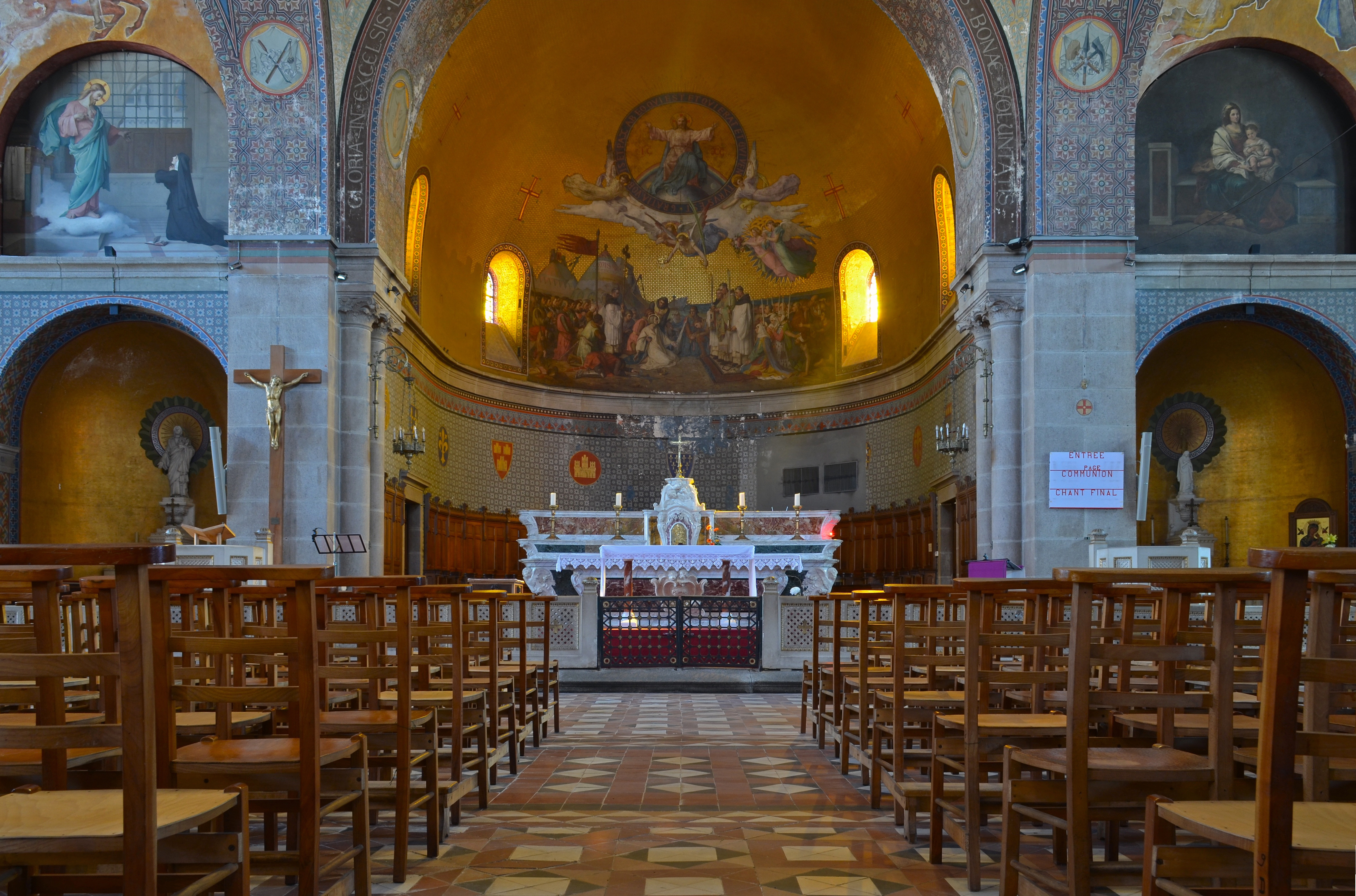 Choir of Saint-Louis church in Paimbœuf - Loire-Atlantique, France .